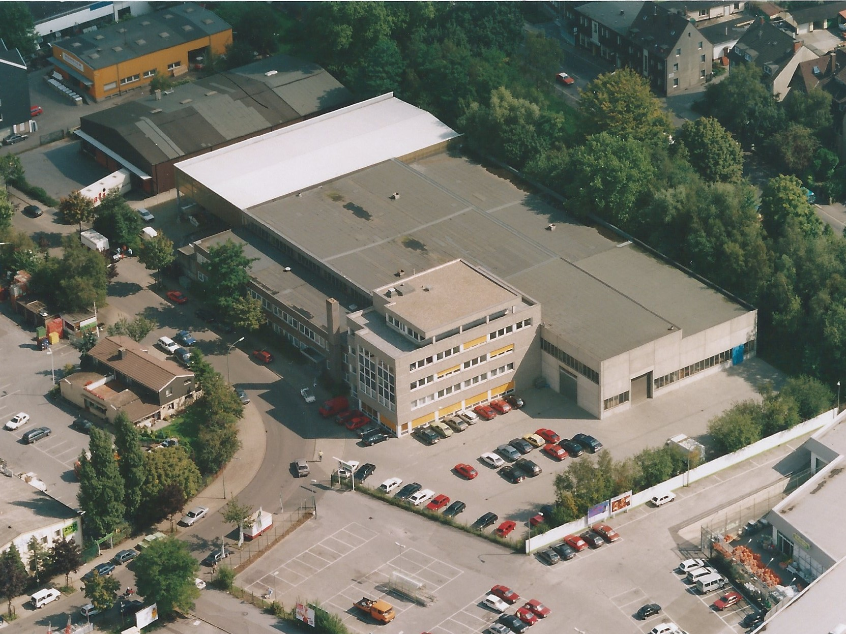 Aufnahme Werksgelände EES-Erdgas-Energie-Systeme GmbH mittels Drohne aus dem Jahr 1993 ehemalige Zeche Wolfsbank